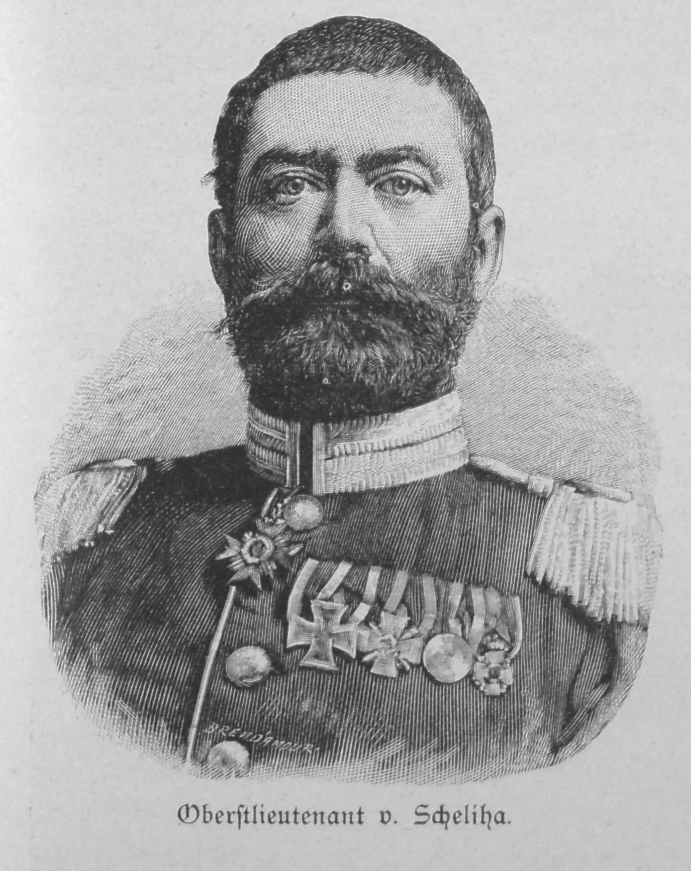 lieutenant colonel von Scheliha